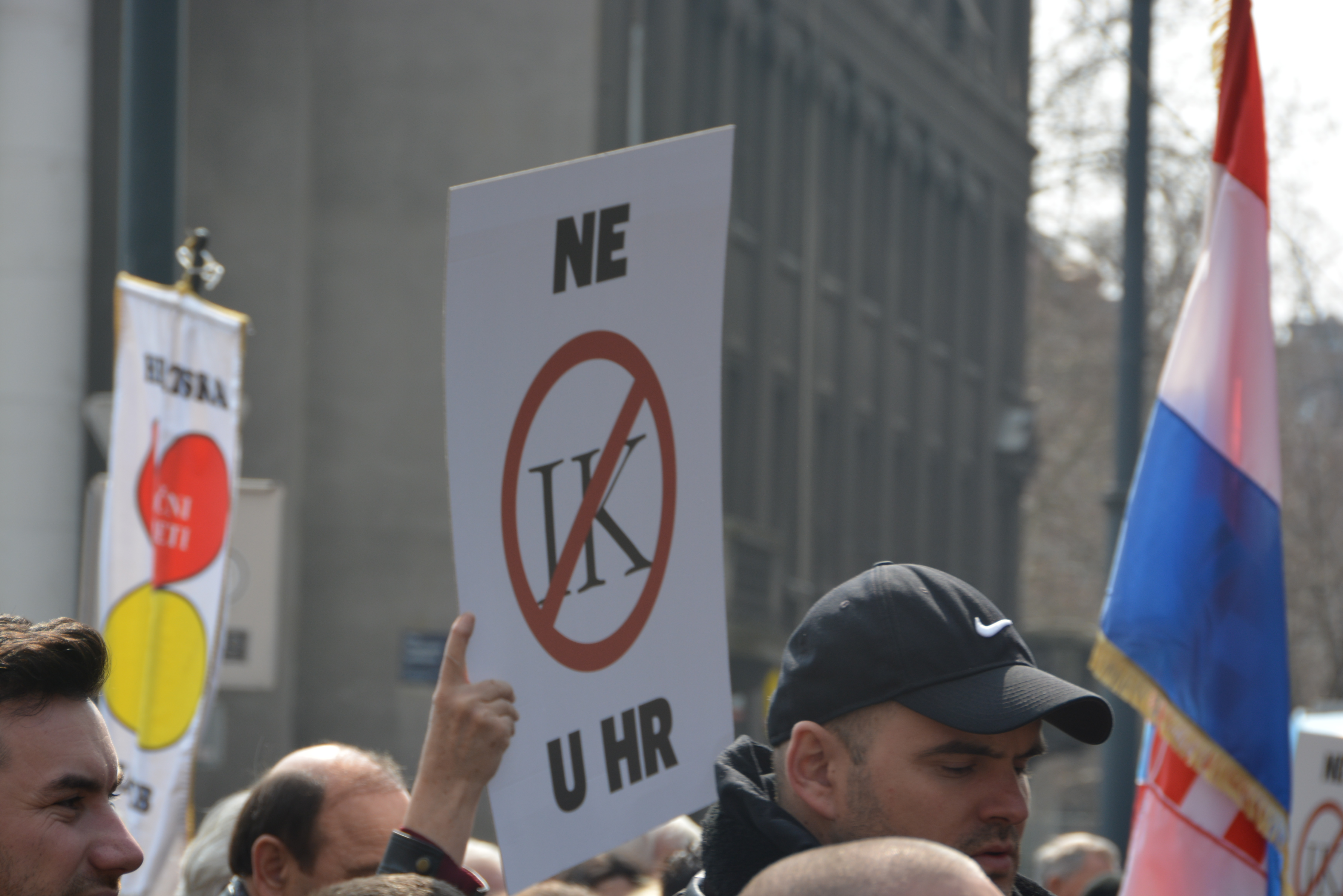 Željka Markić at the protest against the ratification of the Istanbul Convention, March 24, 2018, Zagreb.